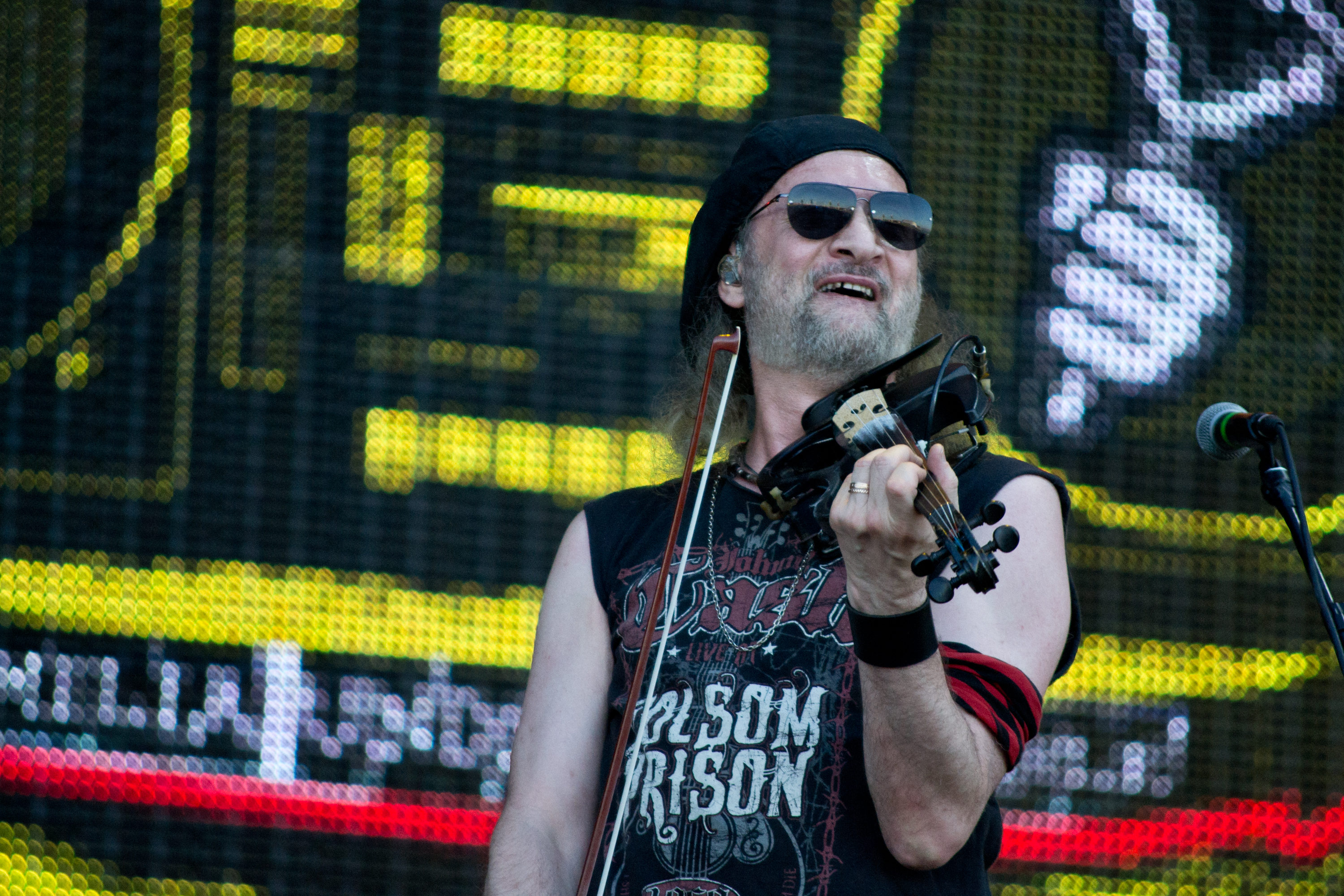 Gogol Bordello in Rock in Rio Madrid 2012.